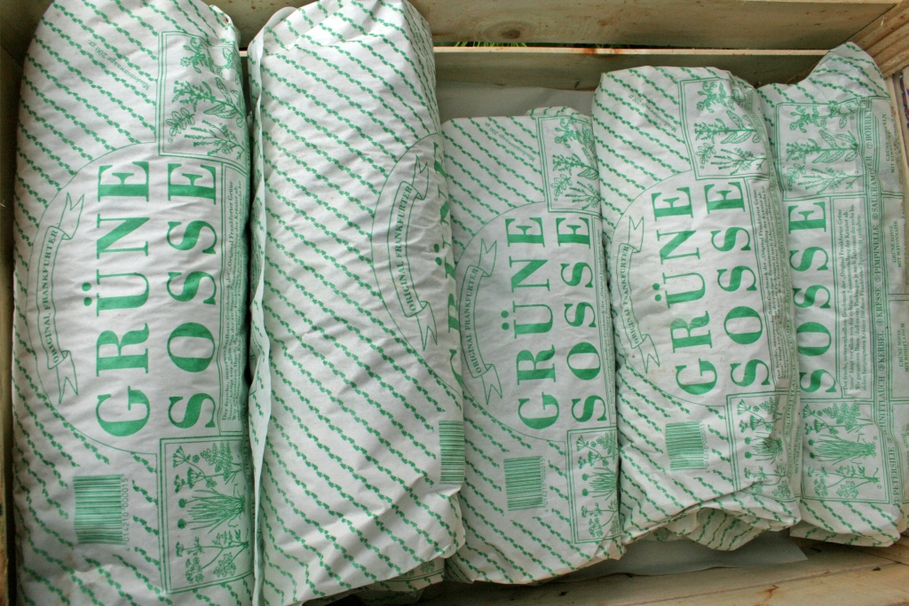 German Grüne Soße, here the Frankfurter Grüne Soße, a mixture of 7 Herbs packed in the traditional paper roll. Seen on the farmer's market in Marburg